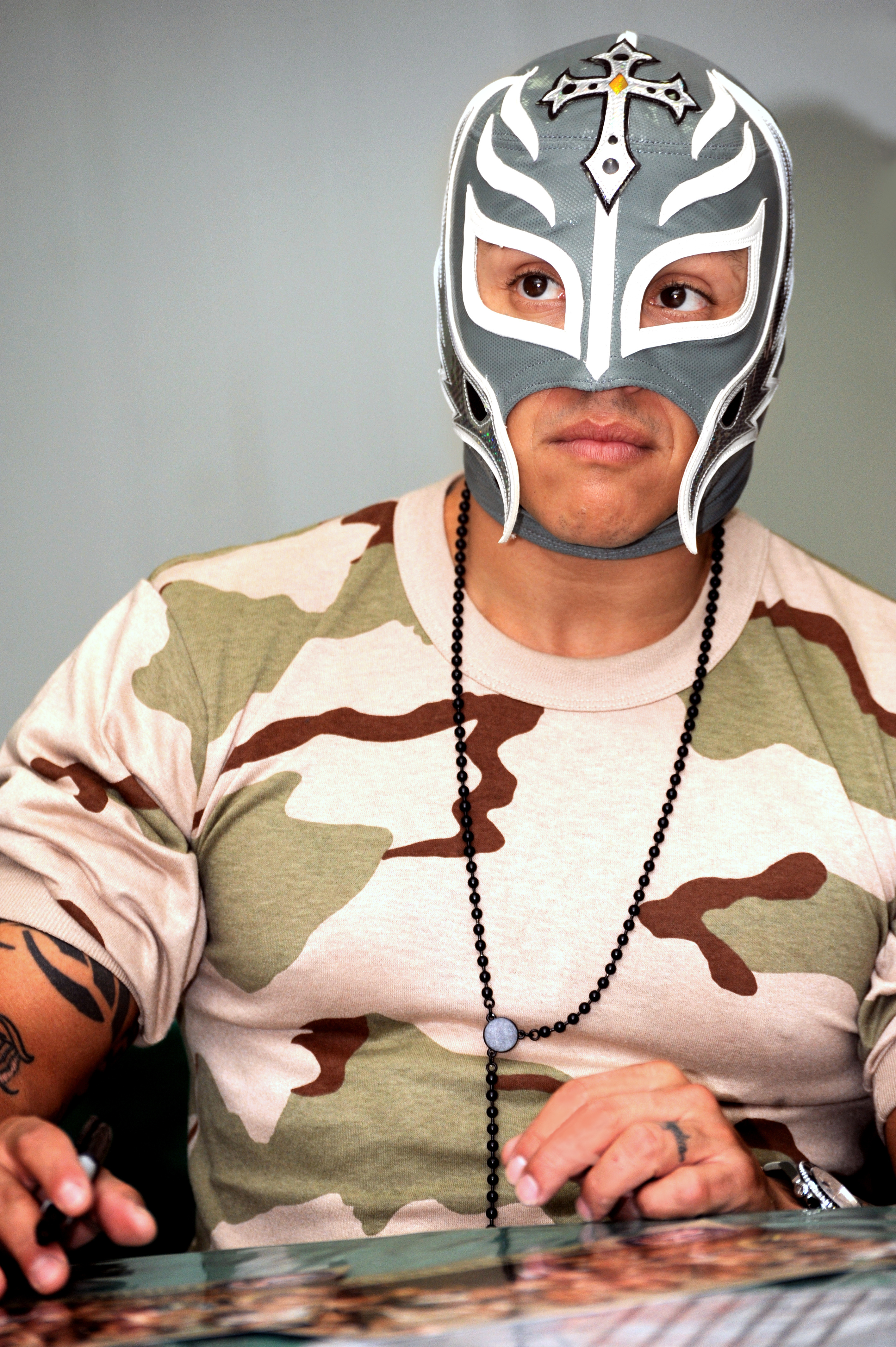 Date: 12.04.2008 Posted: 12.09.2008 03:27 Photo ID:rey misterio VIRIN: 081204-A-4676S-026 Location: Forward Operating Base Loyalty, IQ World Wrestling Entertainment's Oscar Gutierrez, better known as "Rey Mysterio" signs autographs for U.S. Soldiers of 4th Brigade Combat Team, 10th Mountain Division, at Forward Operating Base Loyalty, Beladiyat, eastern Baghdad, Iraq, on Dec. 4, 2008. The WWE wrestlers stopped at FOB Loyalty to sign autographs and pose with Soldiers for photographs.